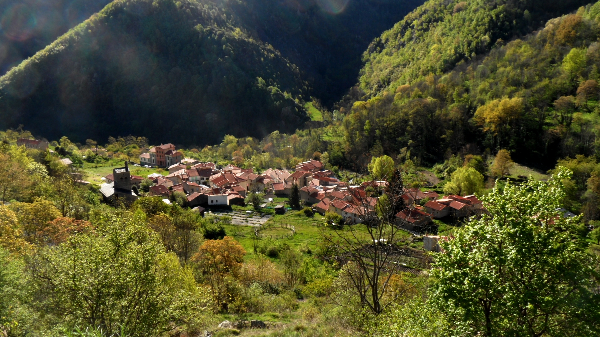 View of Py from the road to Mantet Pass